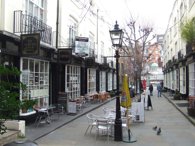 Woburn Walk Tucked away a short distance from Euston station is Woburn Walk, a parade of small shops and food outlets.